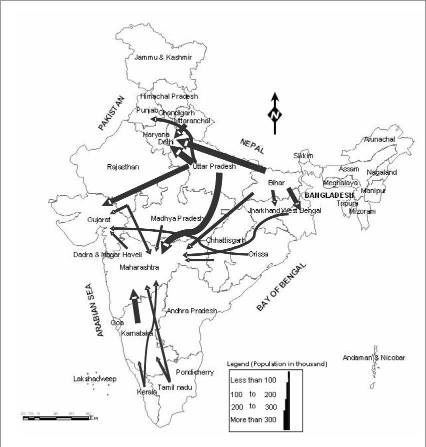 Map Of India